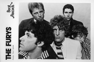 The Furys in 1978